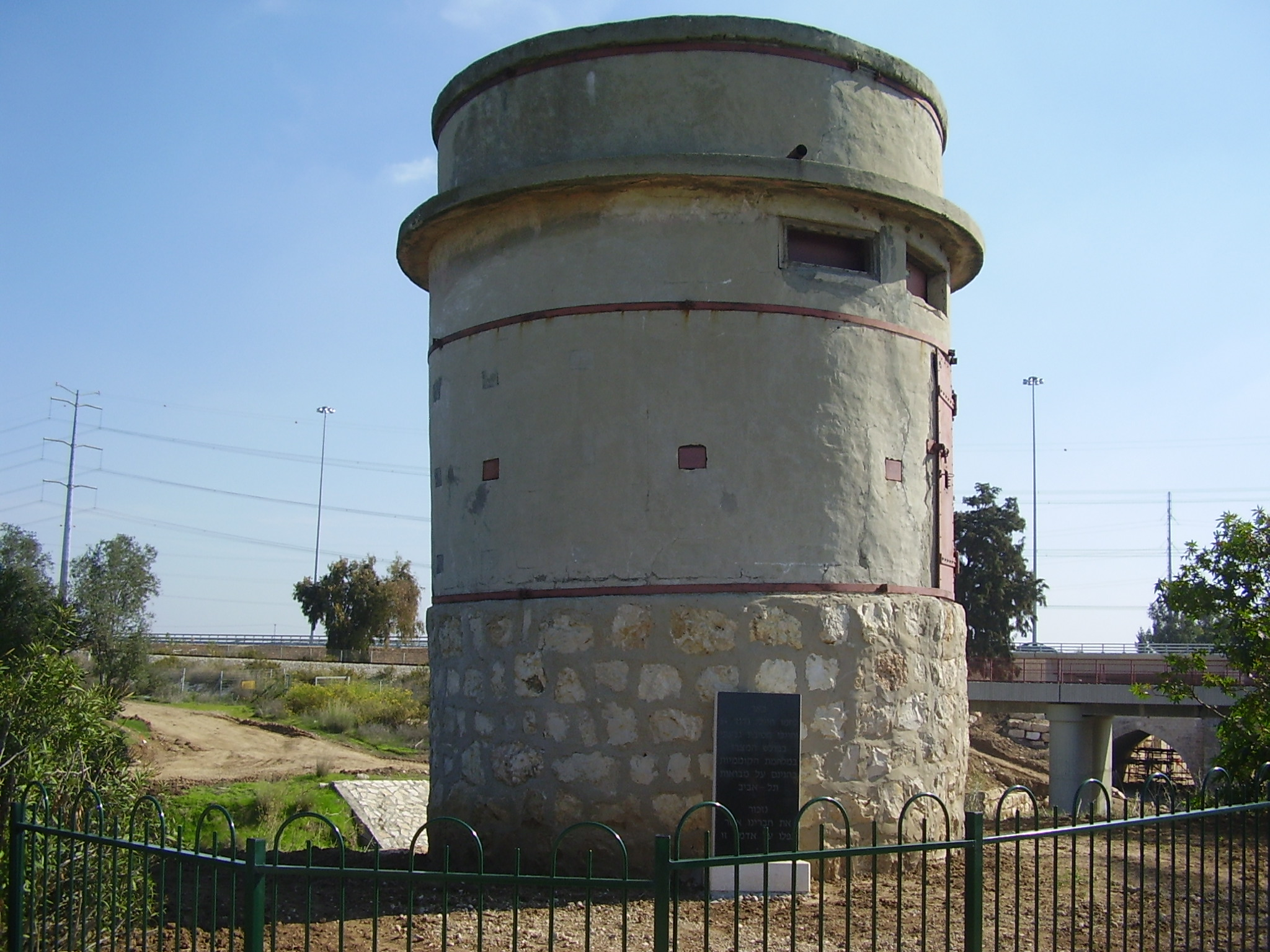 pill-box outpost in ashdod